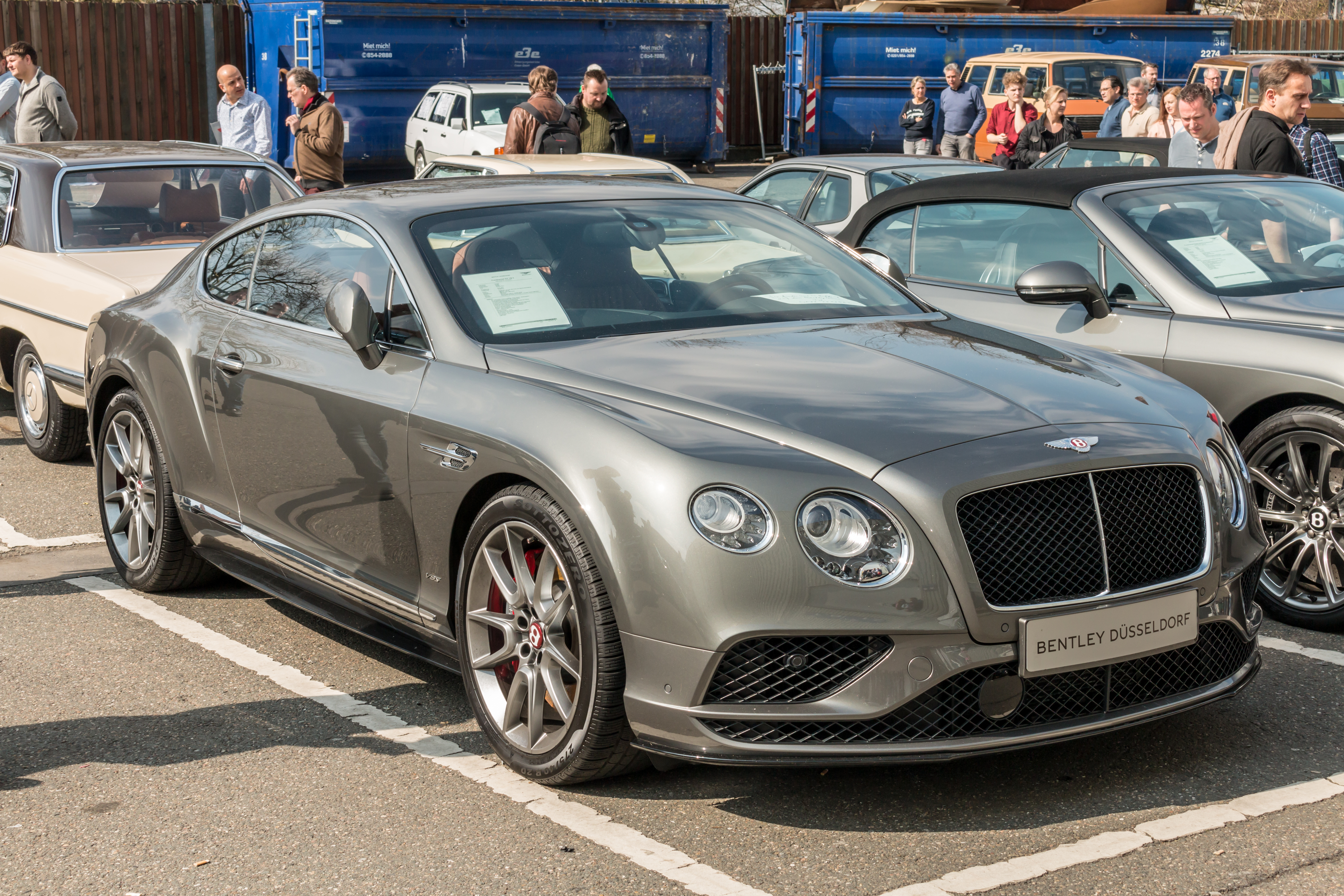 Bentley Continental GT V8 S at Techno Classica 2018, Essen